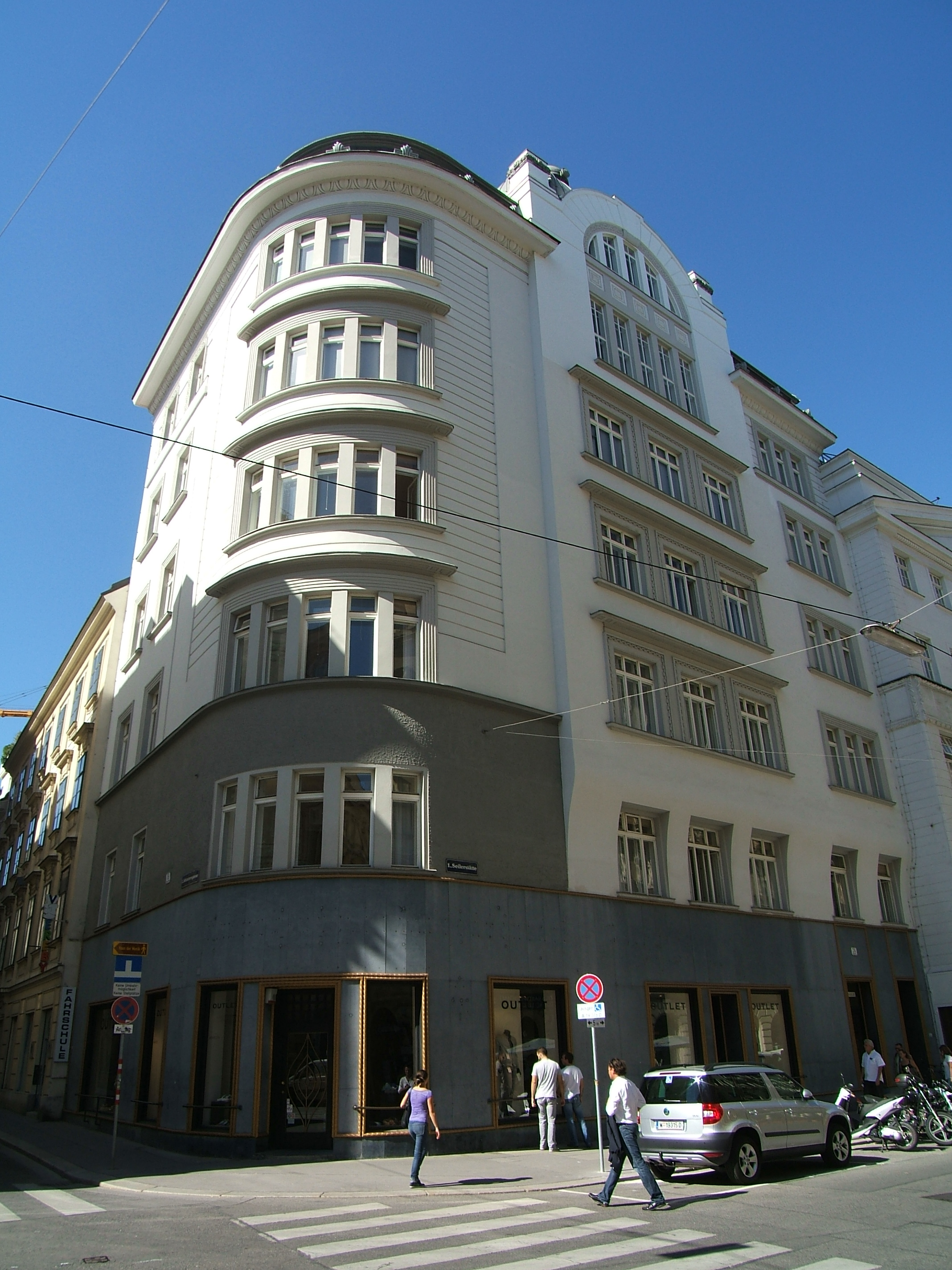 Tenement in Vienna 1st district, Seilerstätte 24